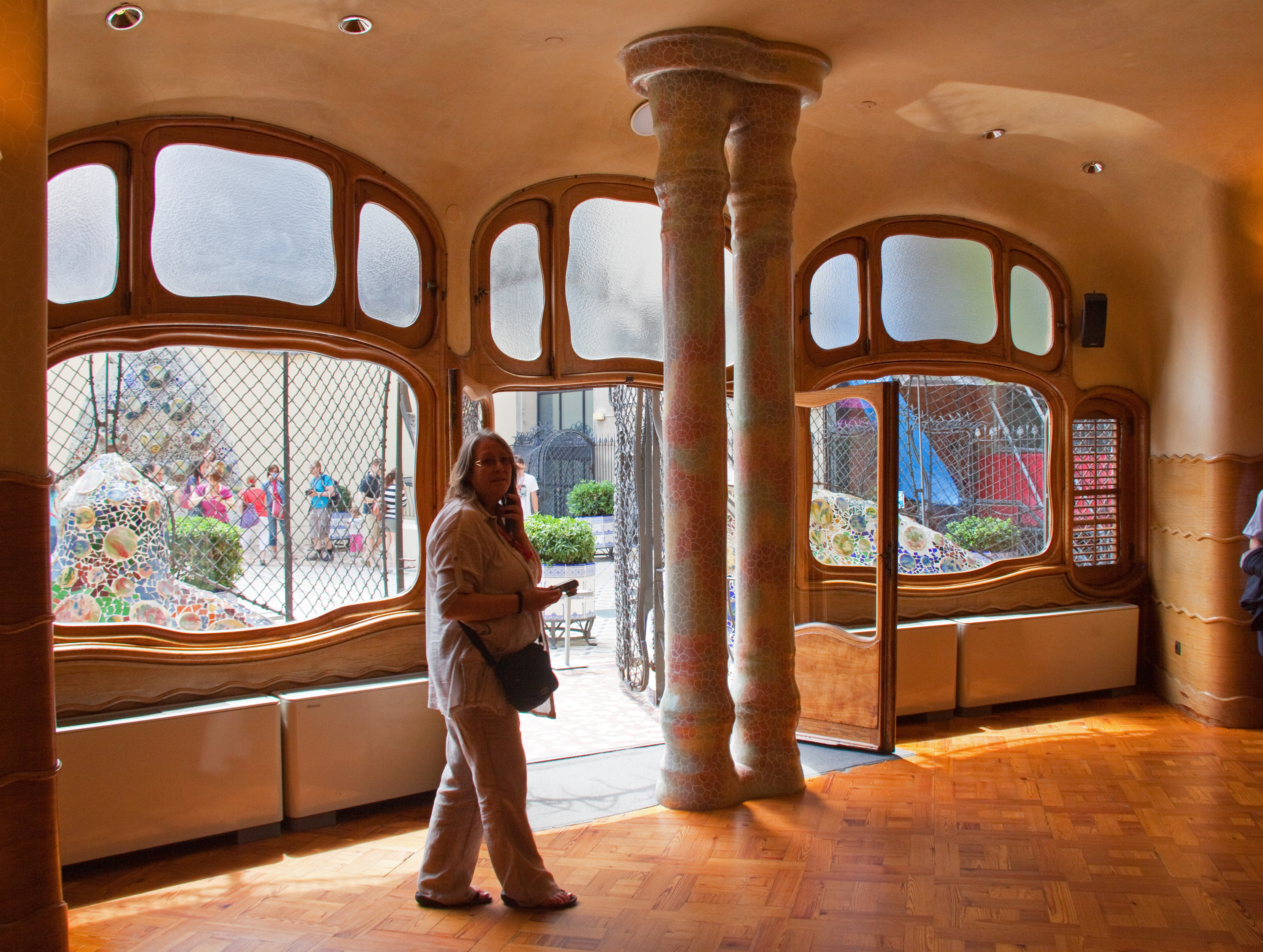 Casa Batllo Opening on to Courtyard